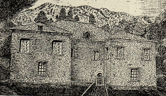 Το σπίτι των Ίσκων στην επανάσταση